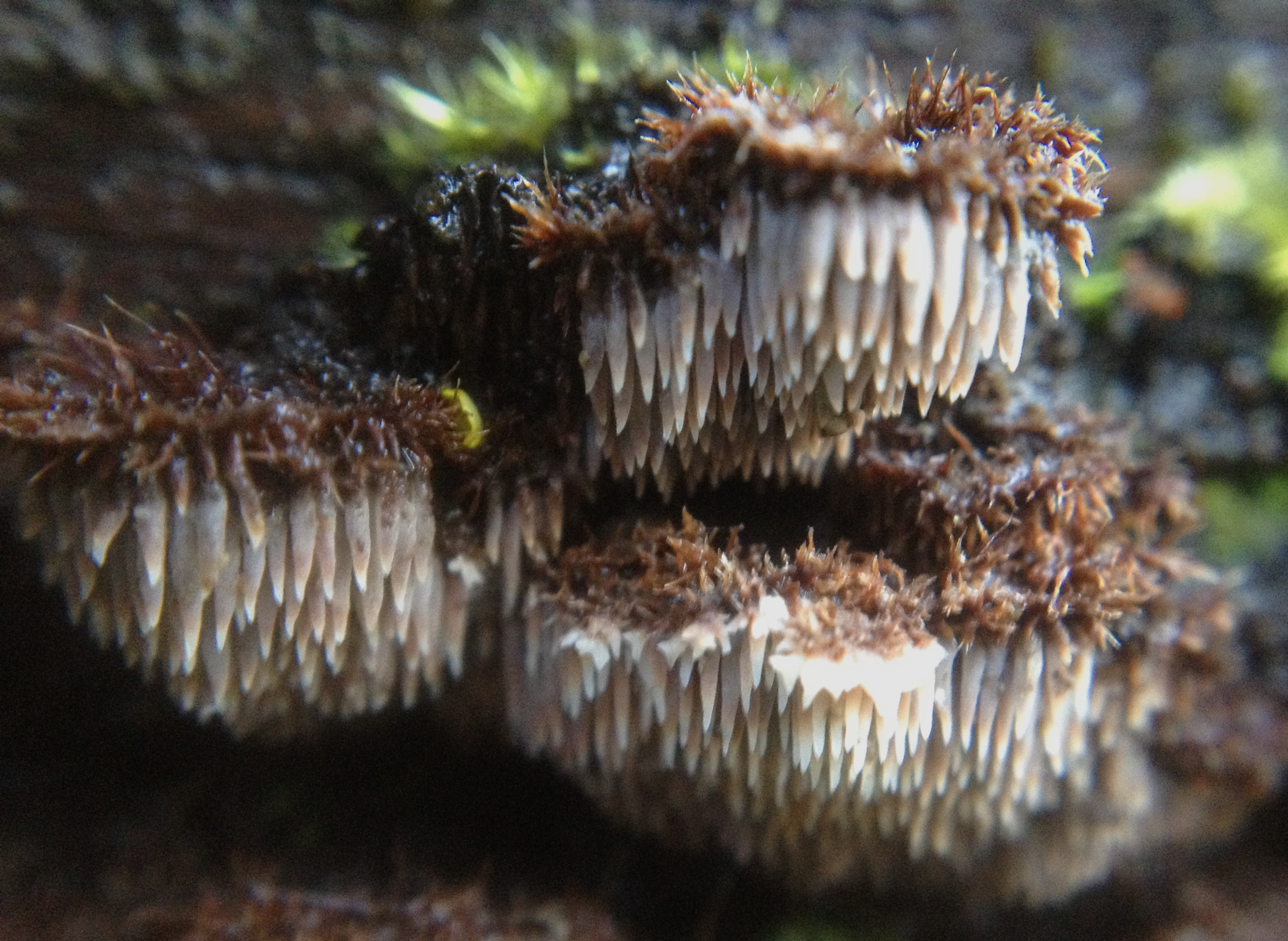 Gloiodon strigosus (Sw.) P. Karst. Image location: Smith and Bybee Wetlands Natural Area, Portland, Oregon, USA Log was rotted enough that I can’t be sure what it was, but likely Populus trichocarpa (black cottonwood). That is the dominant tree in the area. Recognized by sight For more information about this, see the observation page at Mushroom Observer.